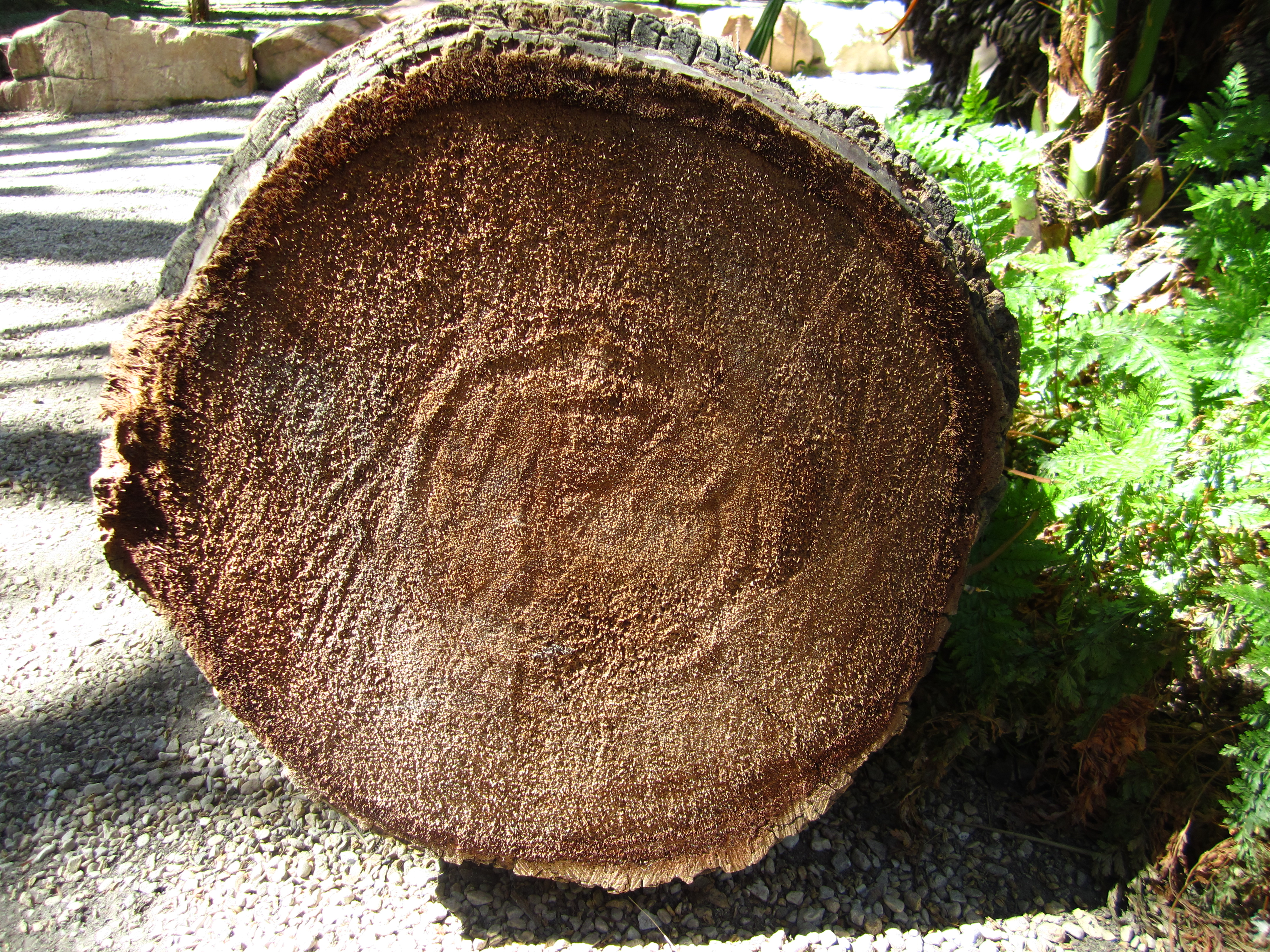 Sawn palm tree trunk. Picture taken in Huerto del Cura, Elche, Spain.